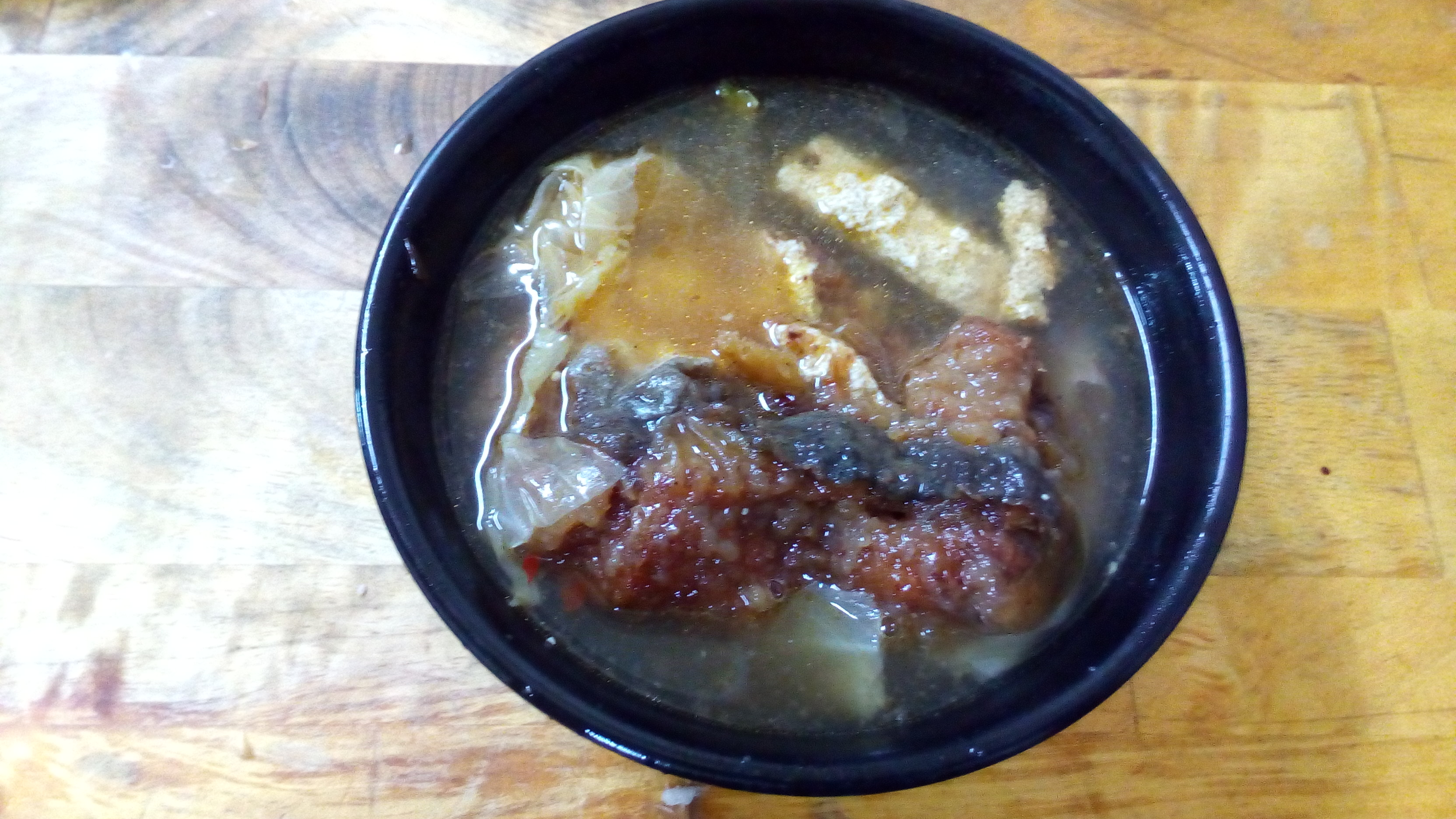 Taiwanese eel soup